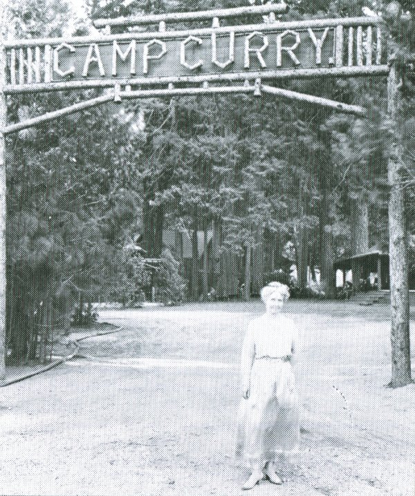 Photograph of Jenny Curry in front of Camp Curry sign in Yosemite. (c. 1900). Credits Scanned from NPS contributors Yosemite: Official National Park Service Handbook, Washington, D.C.: Division of Publications, National Park Service no. 138